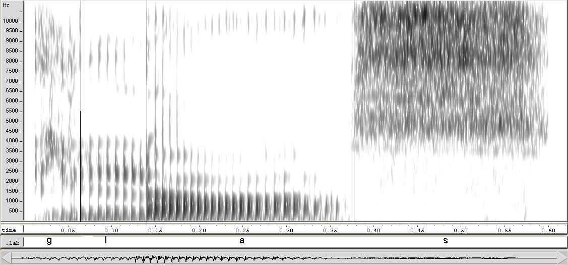 Illustration to sv.wikipedia Segment